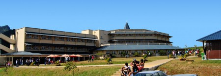 cti